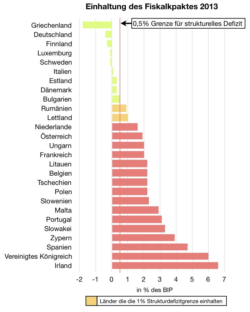 The compliance of the governments financial budget (structural deficit) with the strict criteria defined by the Fiscal Compact for each of the EU member states, as laid out in this table. The figures all origin from the economic forecast published by the European Commission in May 2012, and reflect how the figures are forecaster to be if no additional fiscal austerity will be implemented by the government's financial budget law for 2013.